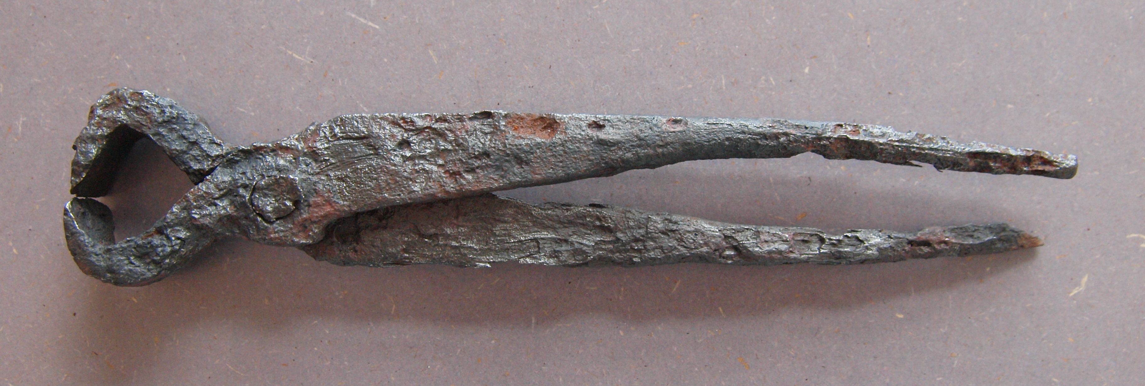 Pincers from the archaeological excavation at the Harburger Schloßstraße in Hamburg-Harburg, Germany. Dated to approx. 15th or 16th century. Photoraphed at Archaeological Museum Hamburg.